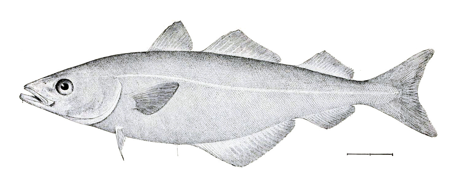 Pollachius virens (=Pollachius carbonarius). The specimen #10443, U. S. National Museum, collected at Eastport, Me., by prof S. F. Baird in 1872.